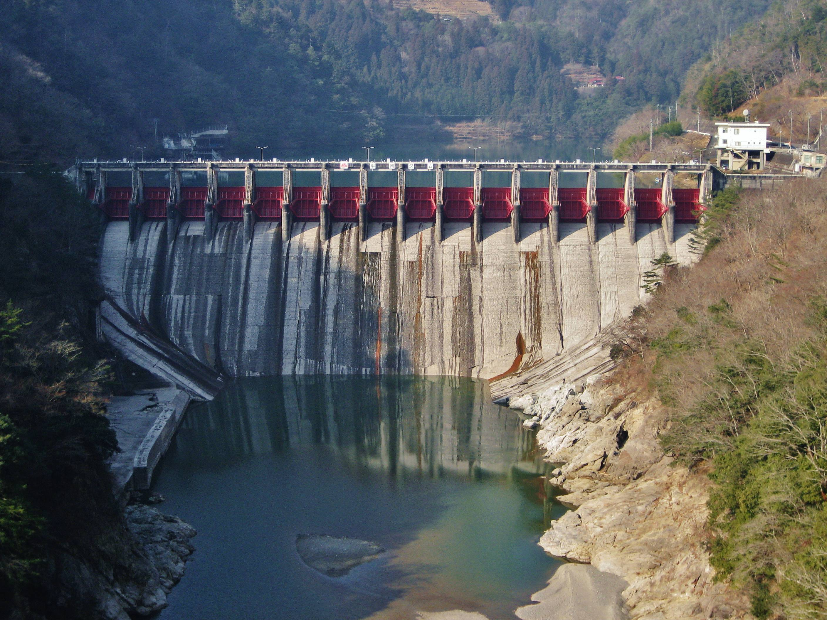 Hiraoka Dam (平岡ダム) is a dam in Tenryu village, Nagano prefecture, Japan.